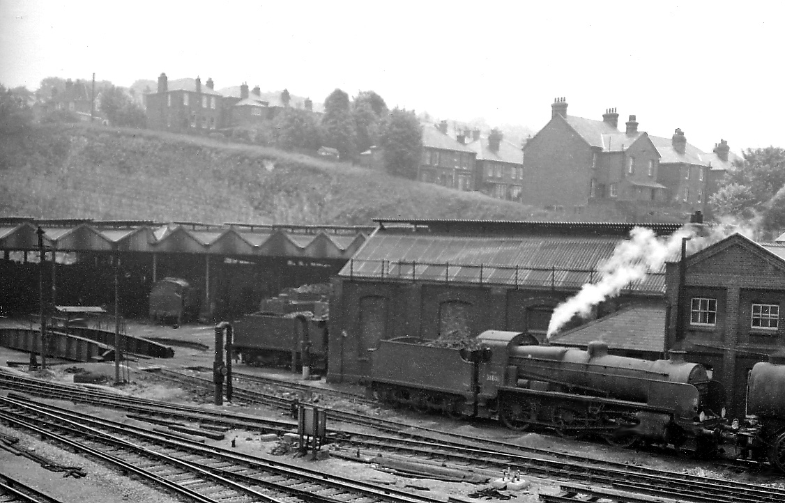 Guildford Locomotive Depot. View SW from the main road bridge, the tunnel south of the Station being off to the left: ex-LSW Waterloo - Portsmouth main line; also ex-SE&C Redhill - Reading line. The cramped, unusual roundhouse has few occupants. The locomotive on the right is SR (ex-SE&C) Maunsell N class 2-6-0 No. 31816 (built 12/21, withdrawn 1/66).